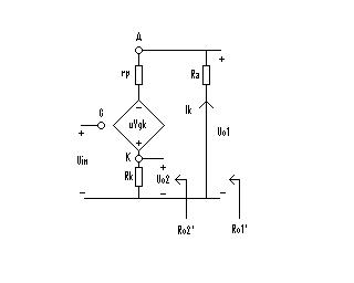 small signal triode model